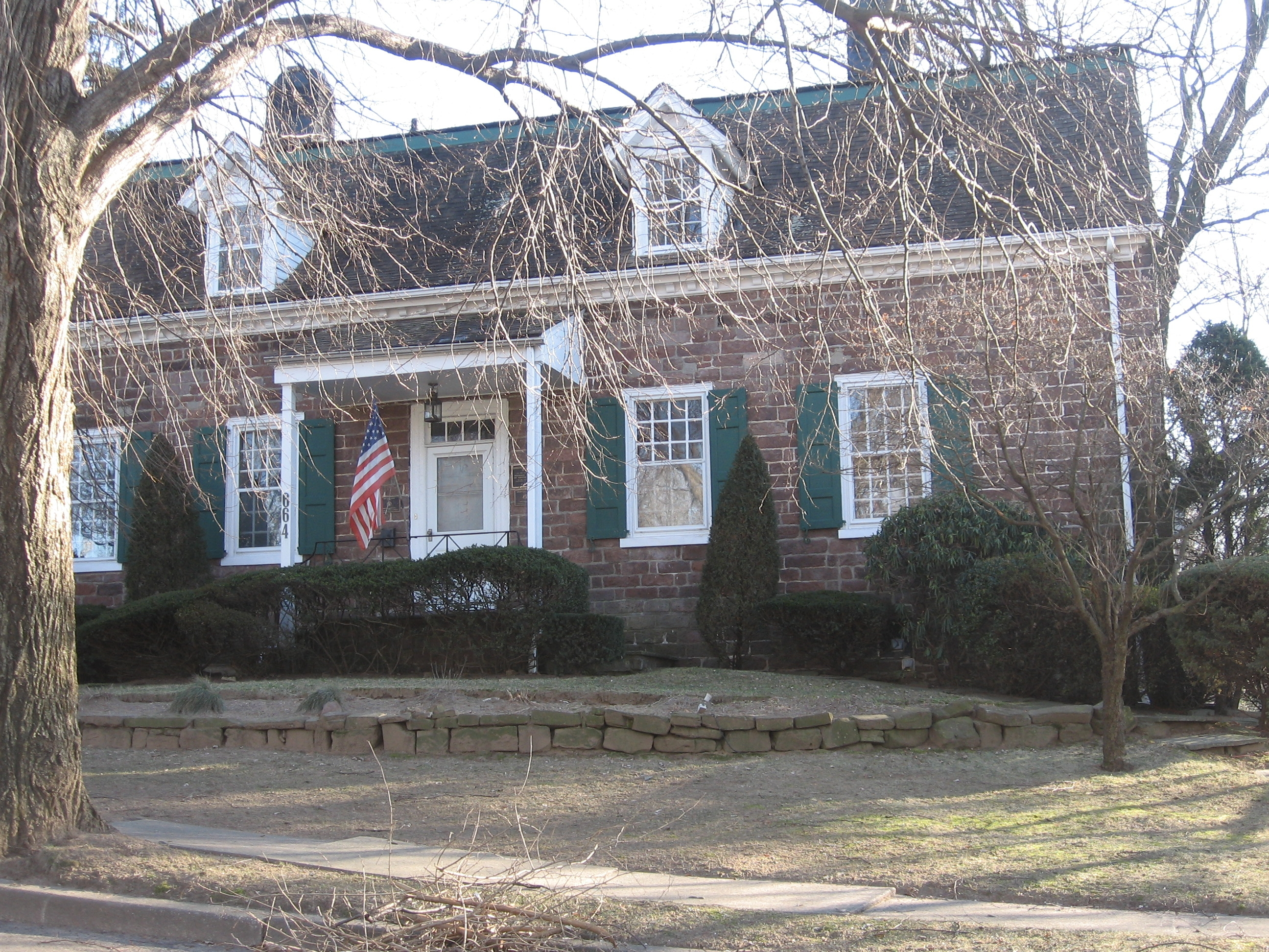 taken by self